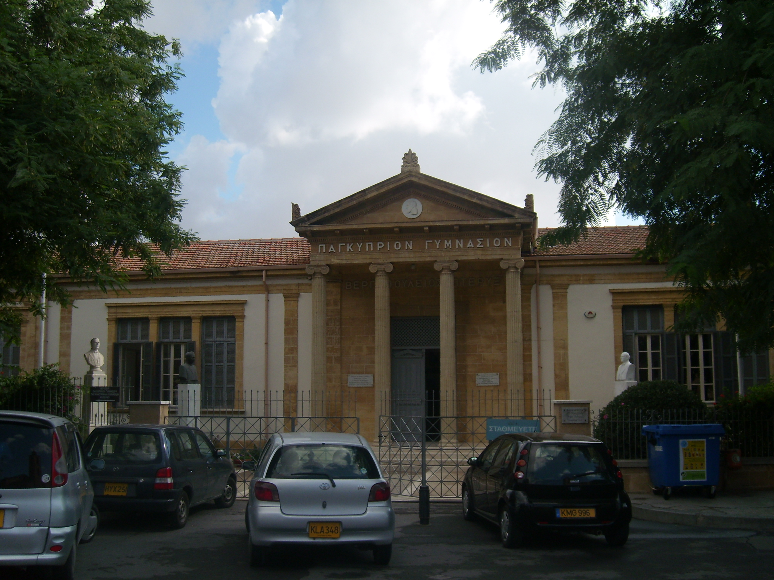 School building in Nicosia